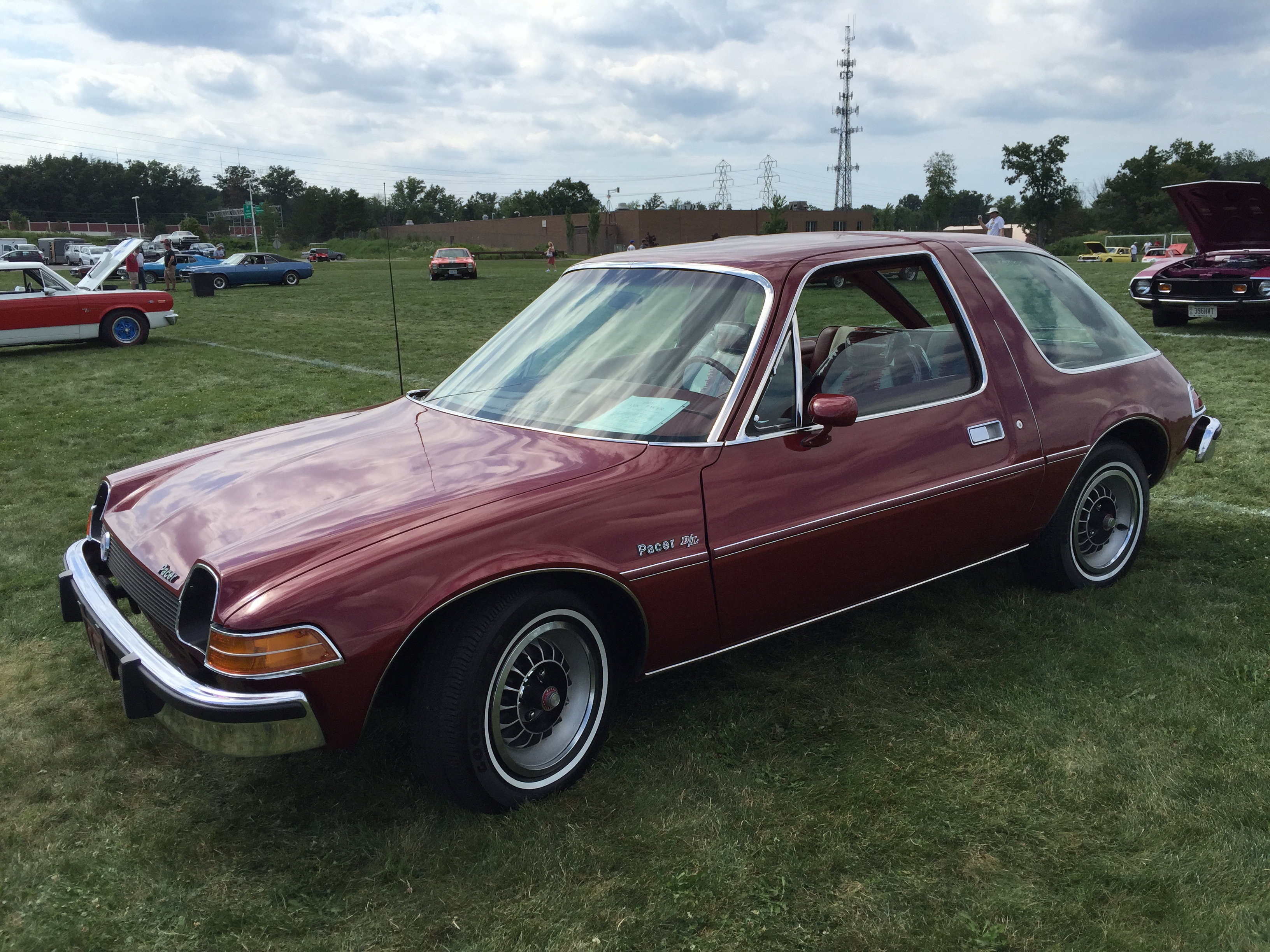 1975 AMC Pacer D/L coupe, an innovative compact-sized car built by American Motors Corporation (AMC). This car is finished in "Autumn Red" (paint code H8) with a matching interior with the D/L's individually adjustable reclining front seats upholstered in "Aztec" fabric. Among many features, this car has AMC's styled 14-inch road wheels, the 258 cu in (4.2 L) straight 6-cylinder engine, automatic transmission, air conditioning, an AM/FM/8track stereo radio, clock, rear window wiper, visibility group, as well as the factory locking gas cap. The Pacer went on sale during March 1975, but this car has a build date of January of that year, making this one of the earliest made. AMC held a "Dealer Driveway" marketing event where dealers would drive identical red on red Pacers from Kenosha, Wisconsin. This is one of the promotional "Dealer Driveway" models, and it was driven an sold in South Dakota. Picture taken at the car show on Saturday, July 25, 2015, during the American Motors Owners Association (AMO) annual convention that was held near Cleveland, Ohio.